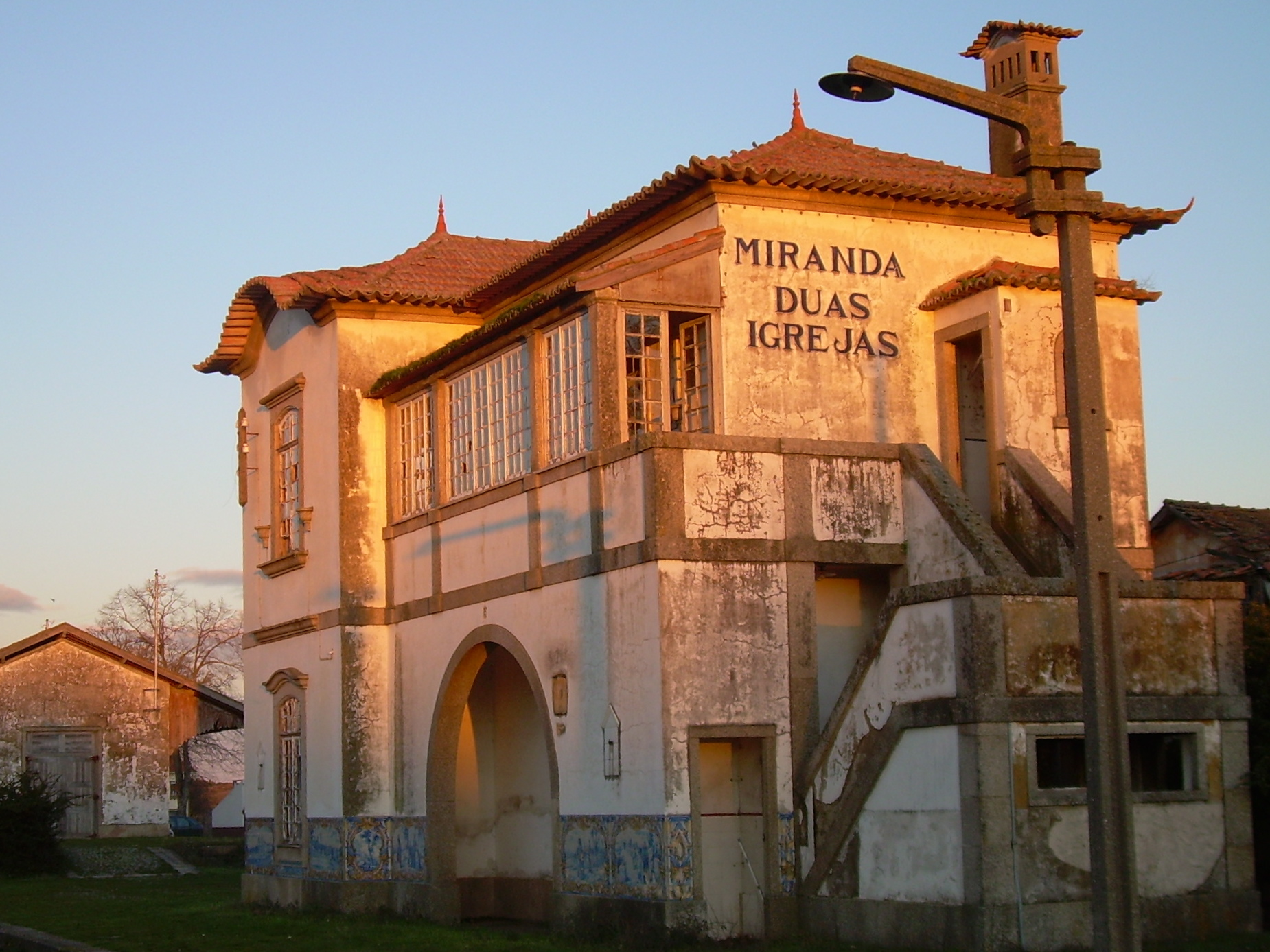 The abandoned train station Duas Igrejas of the Linha do Sabor, Miranda, Portugal